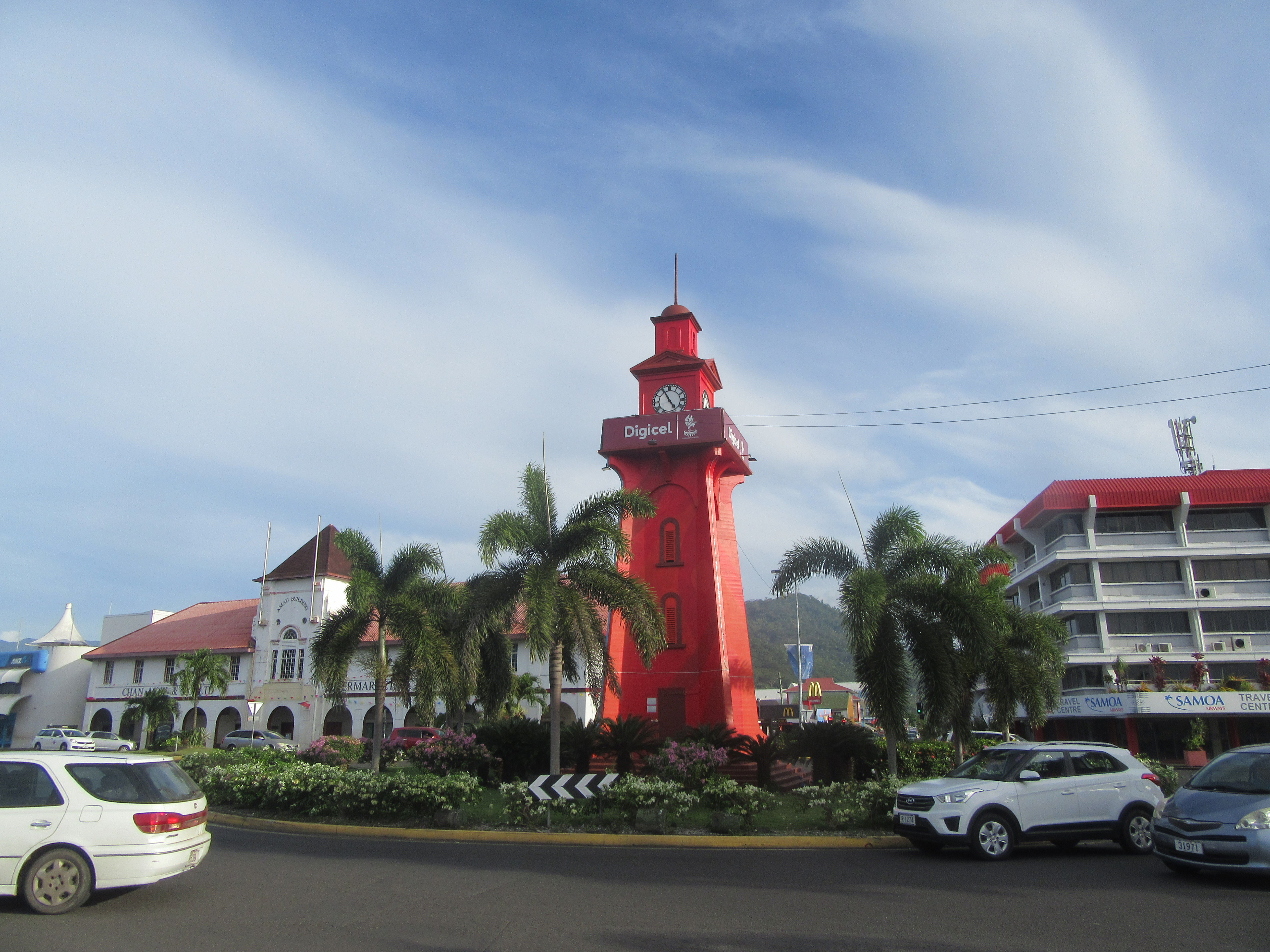 Samoa